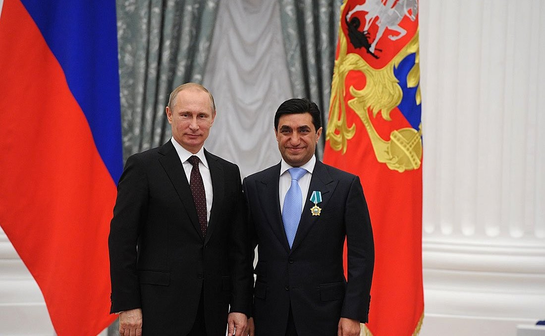 Vladimir Putin and God Nisanov